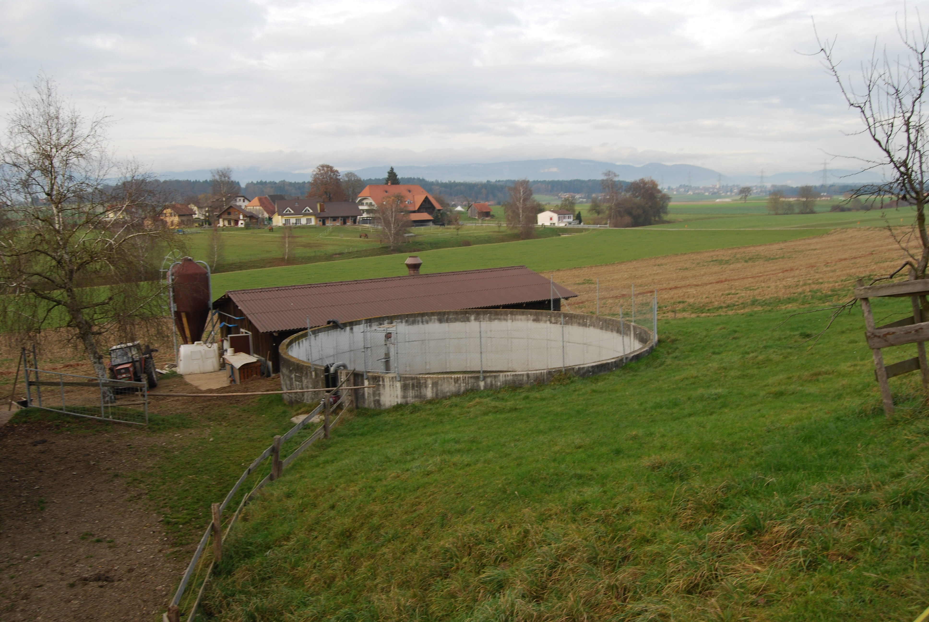 Hellsau, canton of Bern, SwitzerlandEsperanto: Hellsau, Kantono Berno, Svislando